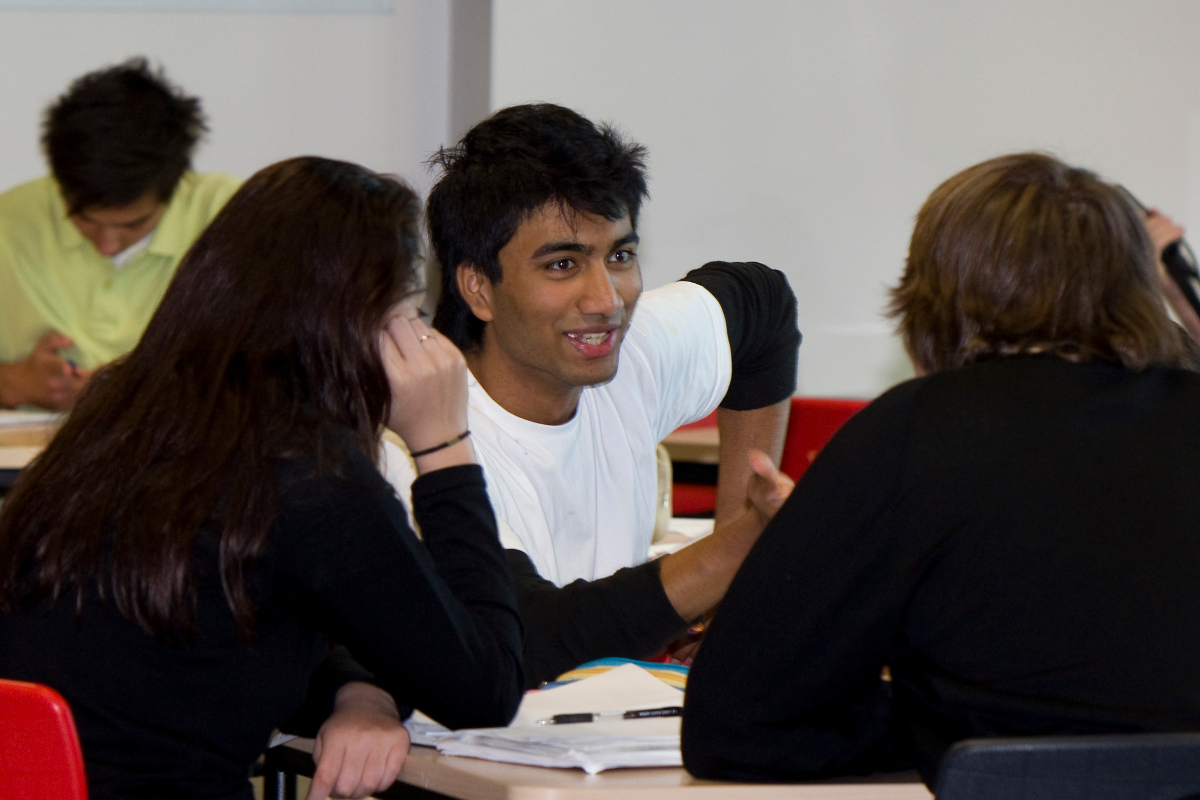 Students talking at Albany Senior High School, New Zealand.